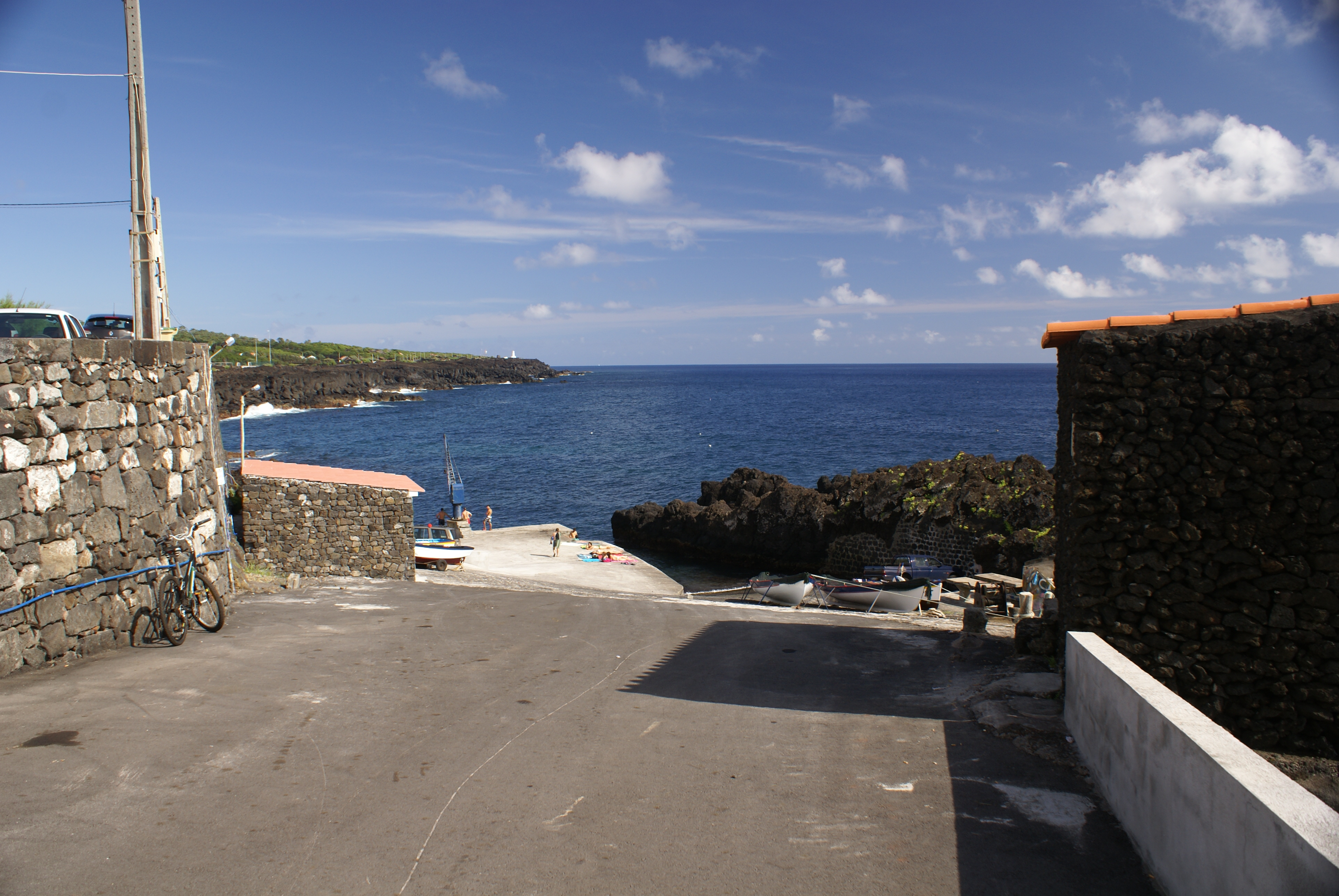 The fishing port of São Mateus, municipality of Madalena do Pico, Pico (Azores), Portugal